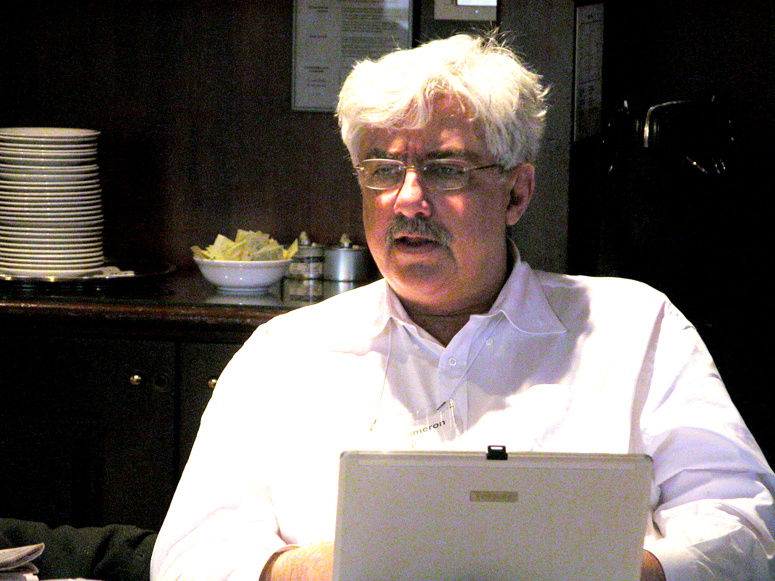 Kim Cameron of Microsoft and father of the Identity Metasystem concept